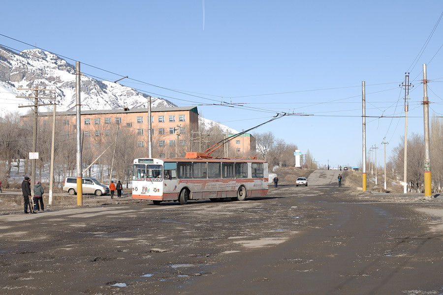 ZiU-9 008 in Naryn (Raimilizija)